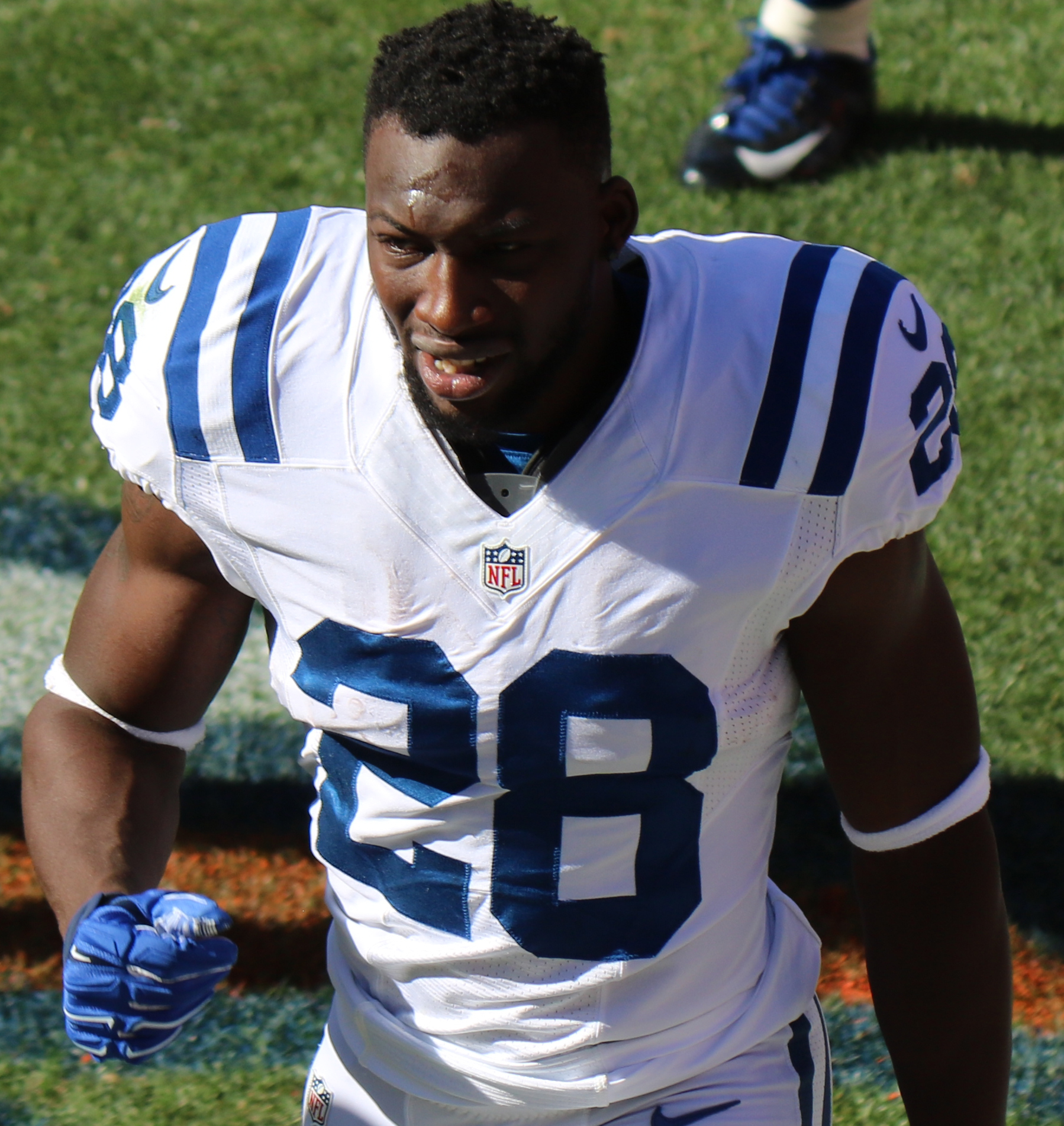 Jordan Todman, a player on the National Football League.